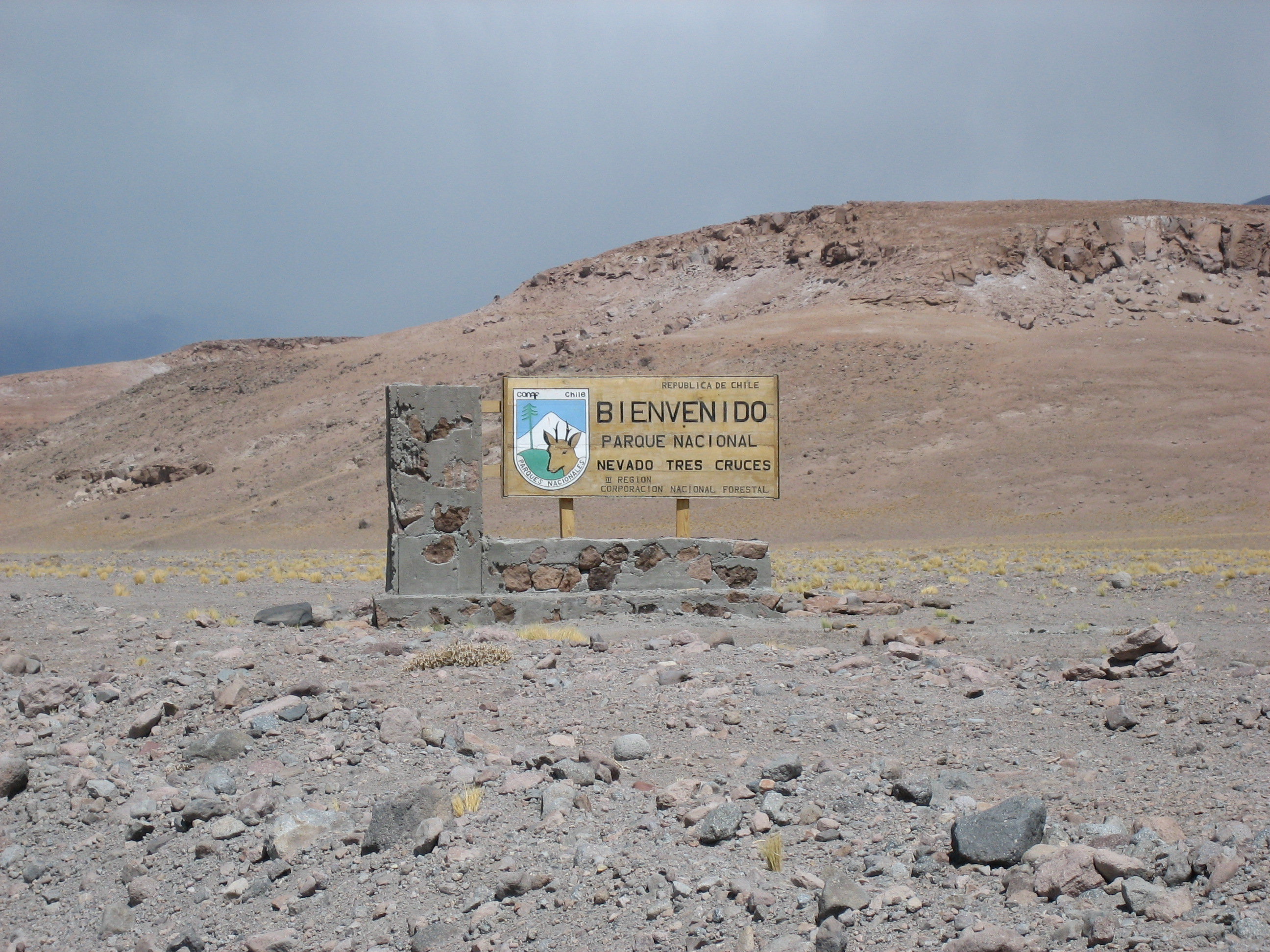 Entrance to the Nevado Tres Cruces National Park in northern Chile.